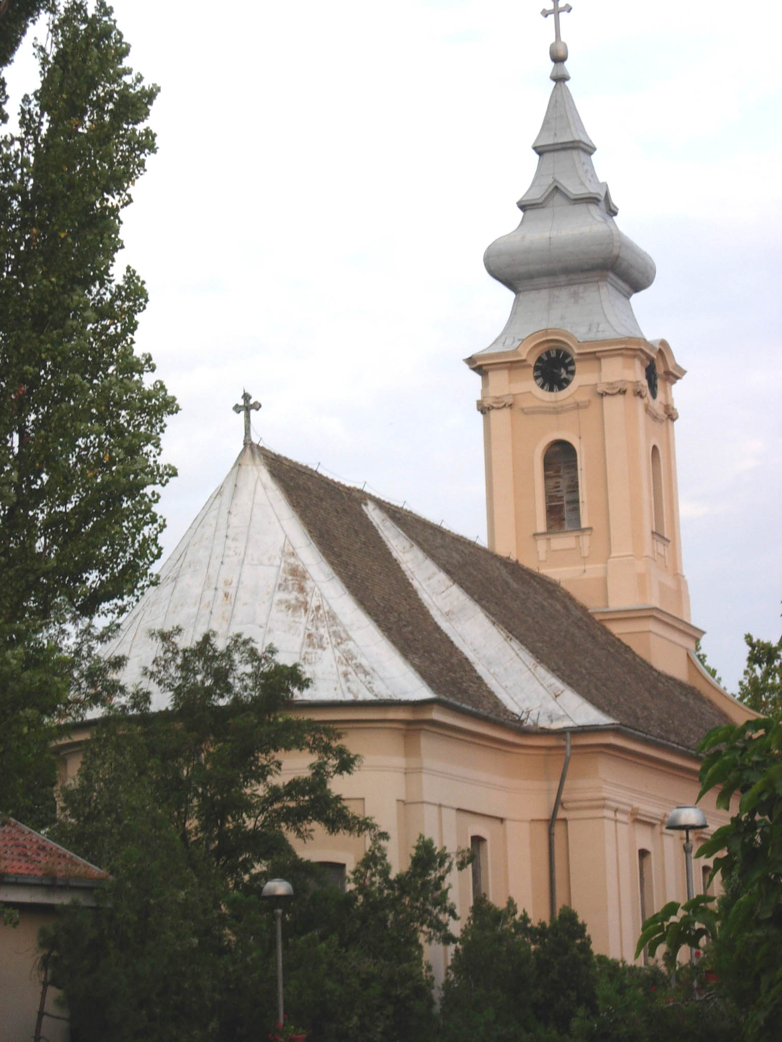 The Saint Clare of Assisi Catholic Church in Novi Bečej.